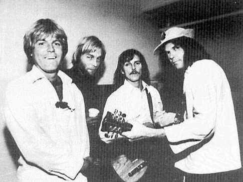 Photo of the Ducks in 1977